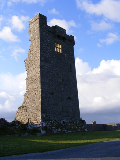 Shanmuckinish Castle There are some holiday homes in the shadow of this ruin